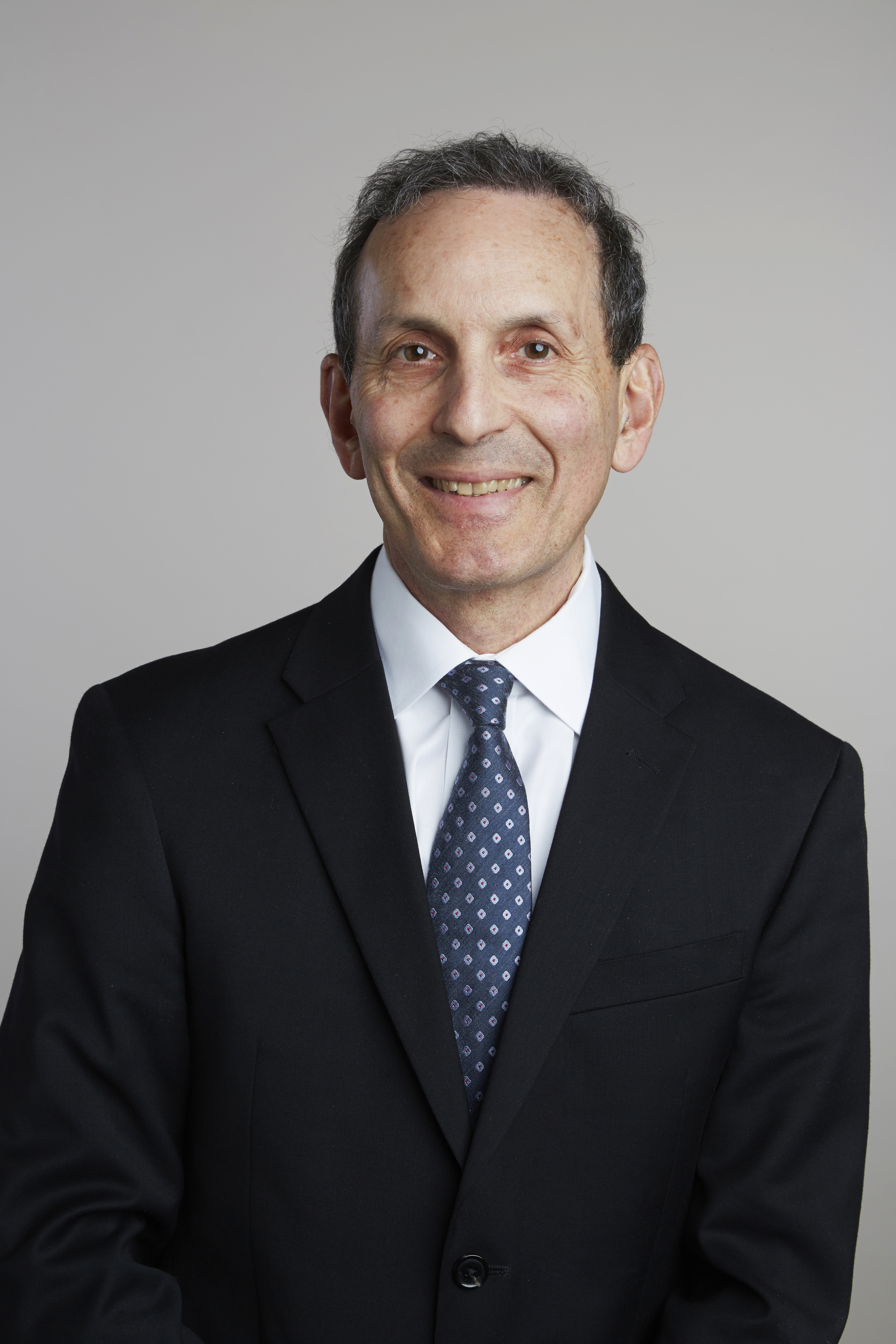 Daniel Drucker graduated in medicine from the University of Toronto(1980), and received postgraduate training (medicine and endocrinology) at Johns Hopkins Hospital (1980-81), the University of Toronto(1980-84) and the Massachusetts General Hospital, Harvard Medical School (1984-87). He is currently Professor of Medicine in the Department of Medicine at the University of Toronto and a senior Scientist in the Lunenfeld-Tanenbaum Research Institute, Mt. Sinai Hospital. Dr Drucker has received numerous national and international awards in recognition of his research accomplishments elucidating the mechanisms of action and therapeutic potential of enteroendocrine hormones. These include the Prix Galien Canada for outstanding academic research (2008), the Donald Steiner Award for Outstanding Diabetes Research from the University of Chicago (2007), the Clinical Investigator Award from the Endocrine Society (2009), the Claude Bernard Prize from the European Association for the Study of Diabetes (2012), the Oon International Award and Lecture from Cambridge University (2014), the Banting Medal for Scientific Achievement from the American Diabetes Association (2014) and the Manpei Suzuki Foundation International Prize for Diabetes (2014). Attribution: The Royal Society